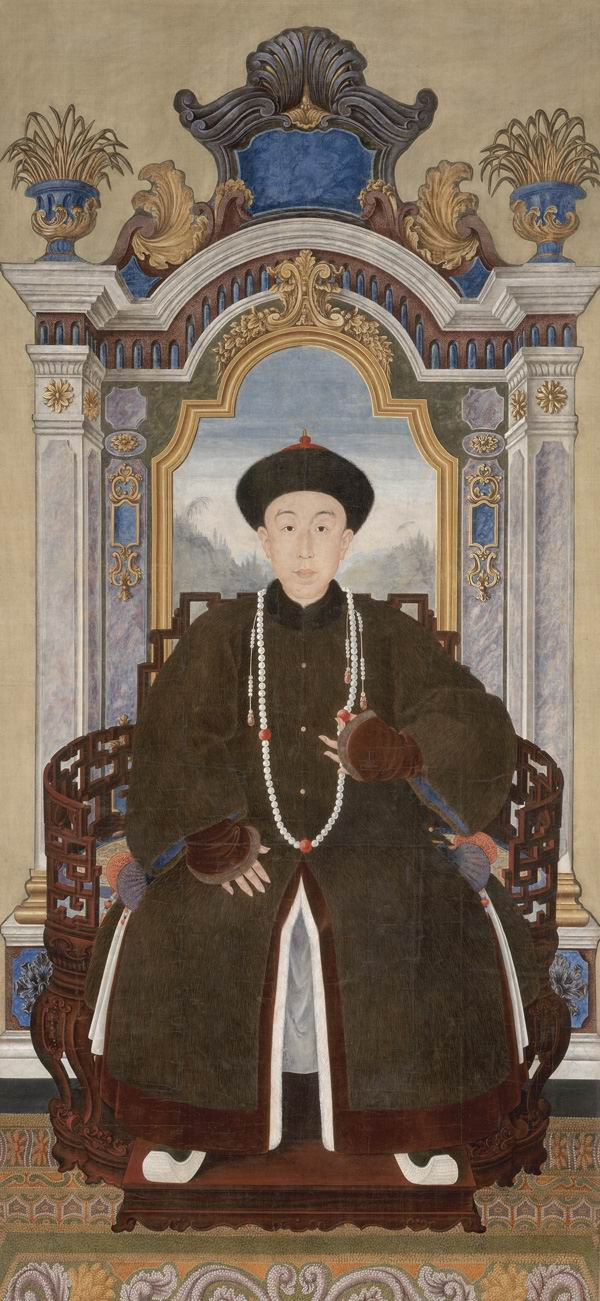 Hongyan, son of Yongzhi Emperor, also adopted son of Yinli, Prince Guo.